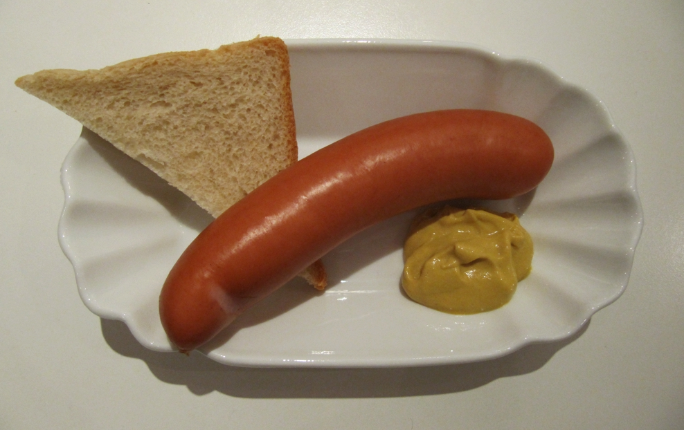 A knockwurst as typically served in Hamburg, Germany. Have a special look at the dishware: This is a very classic form for either cardboard or stoneware dishware for serving french fries or single wurst snacks from the 1950s onwards until the current times in Germany.